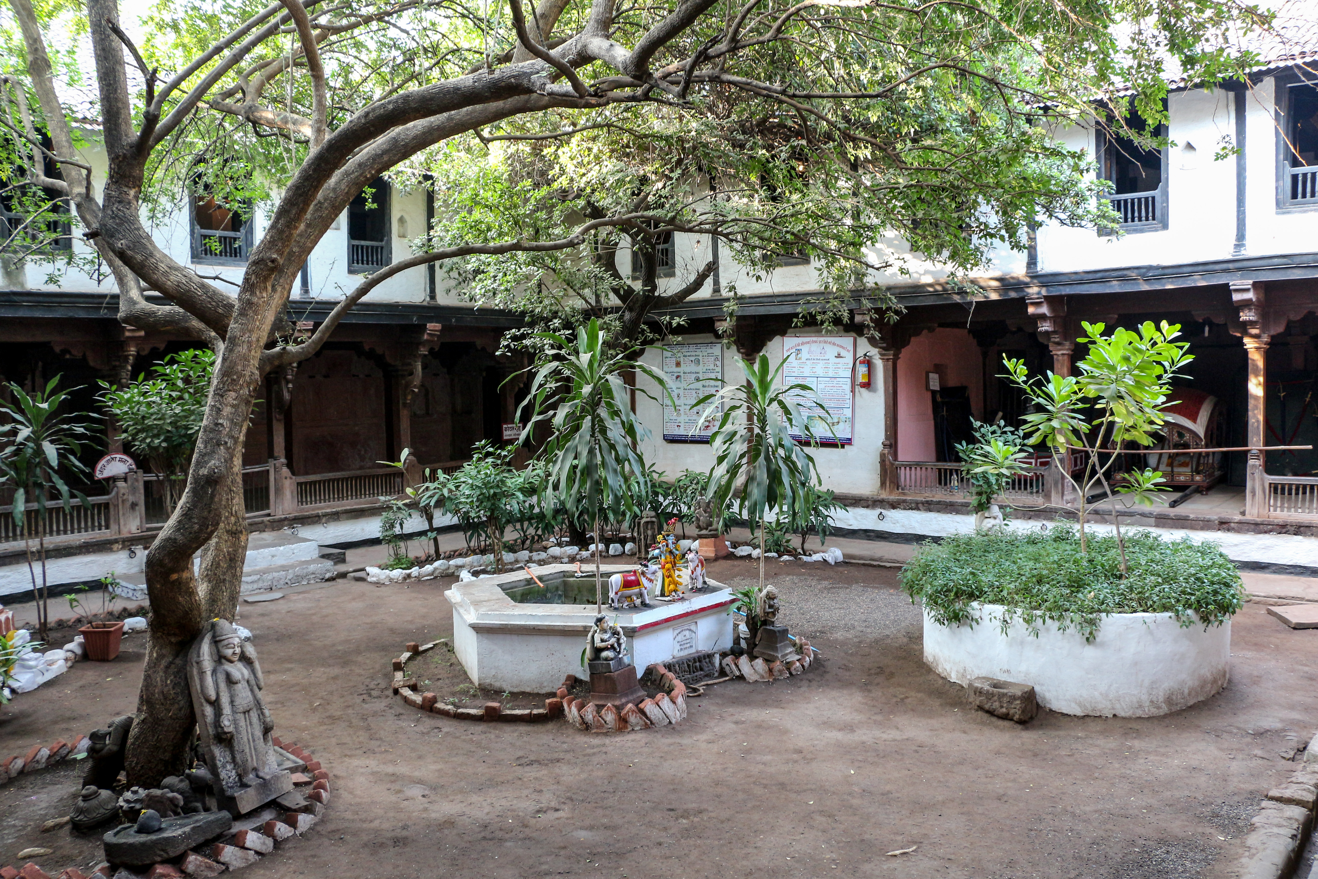 Courtyard of the Rajwada, the royal palace where the queen Ahilya Bai lived, Maheshwar, India